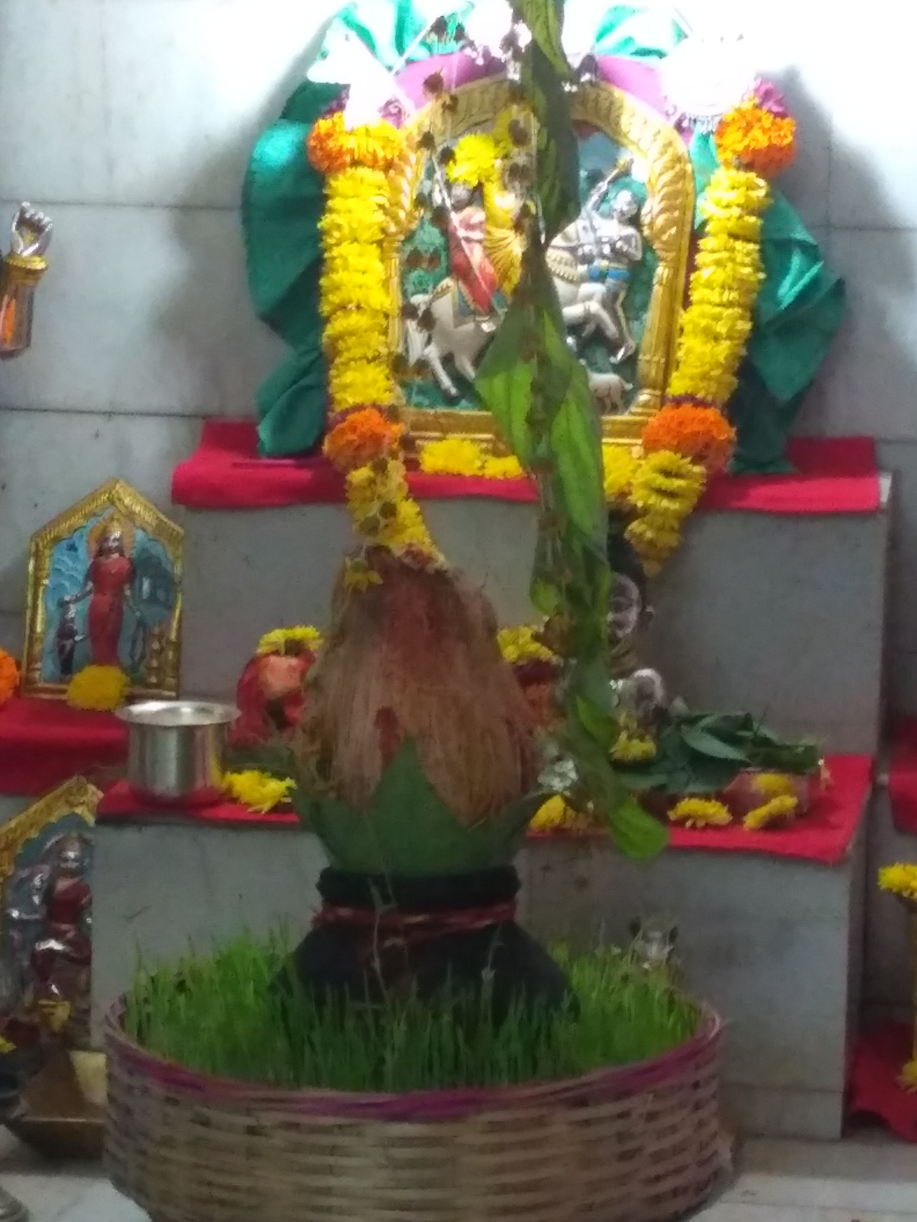 Ghatasthapana